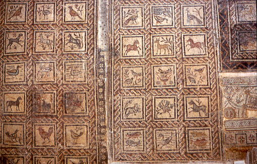 Ruines romaines de Djemila, Algérie